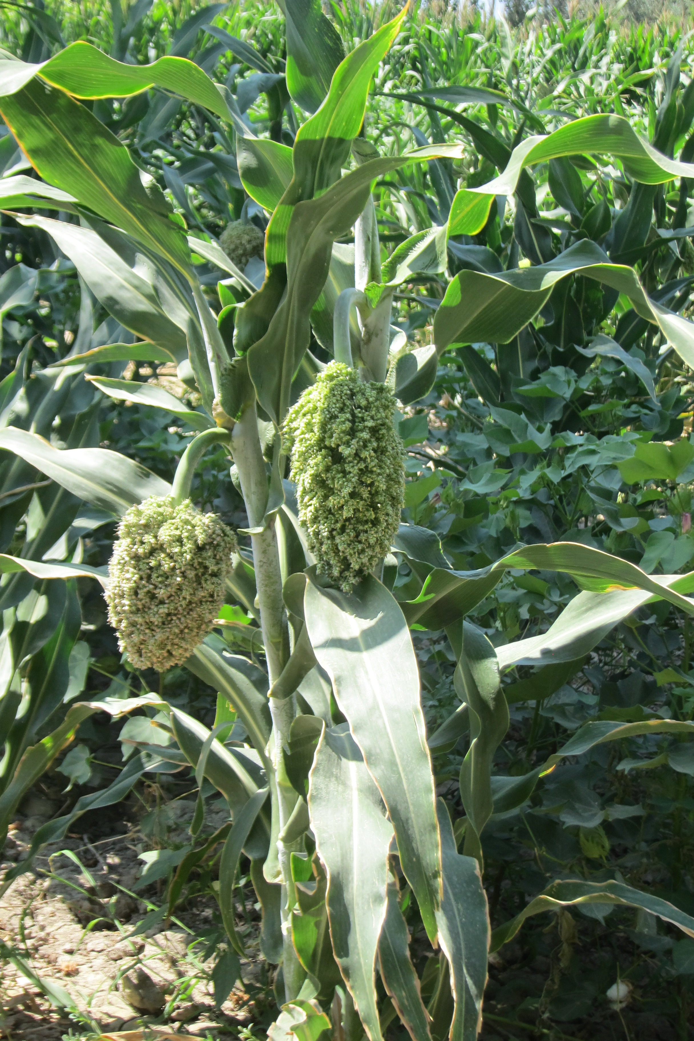 a variety of millet found only in the Turpan basin, Xinjiang Province, China